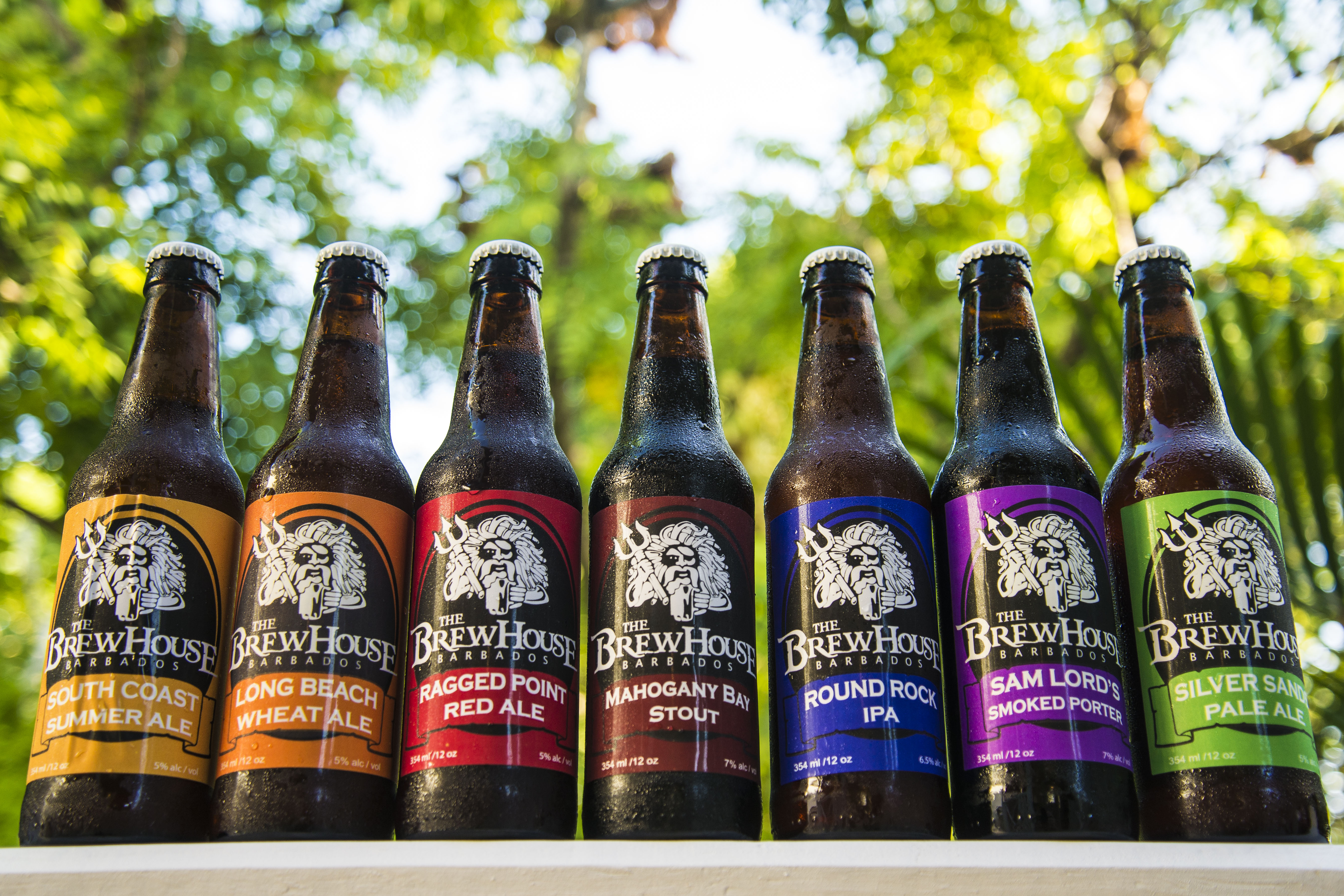 These are the bottles lined up during a personal photoshoot